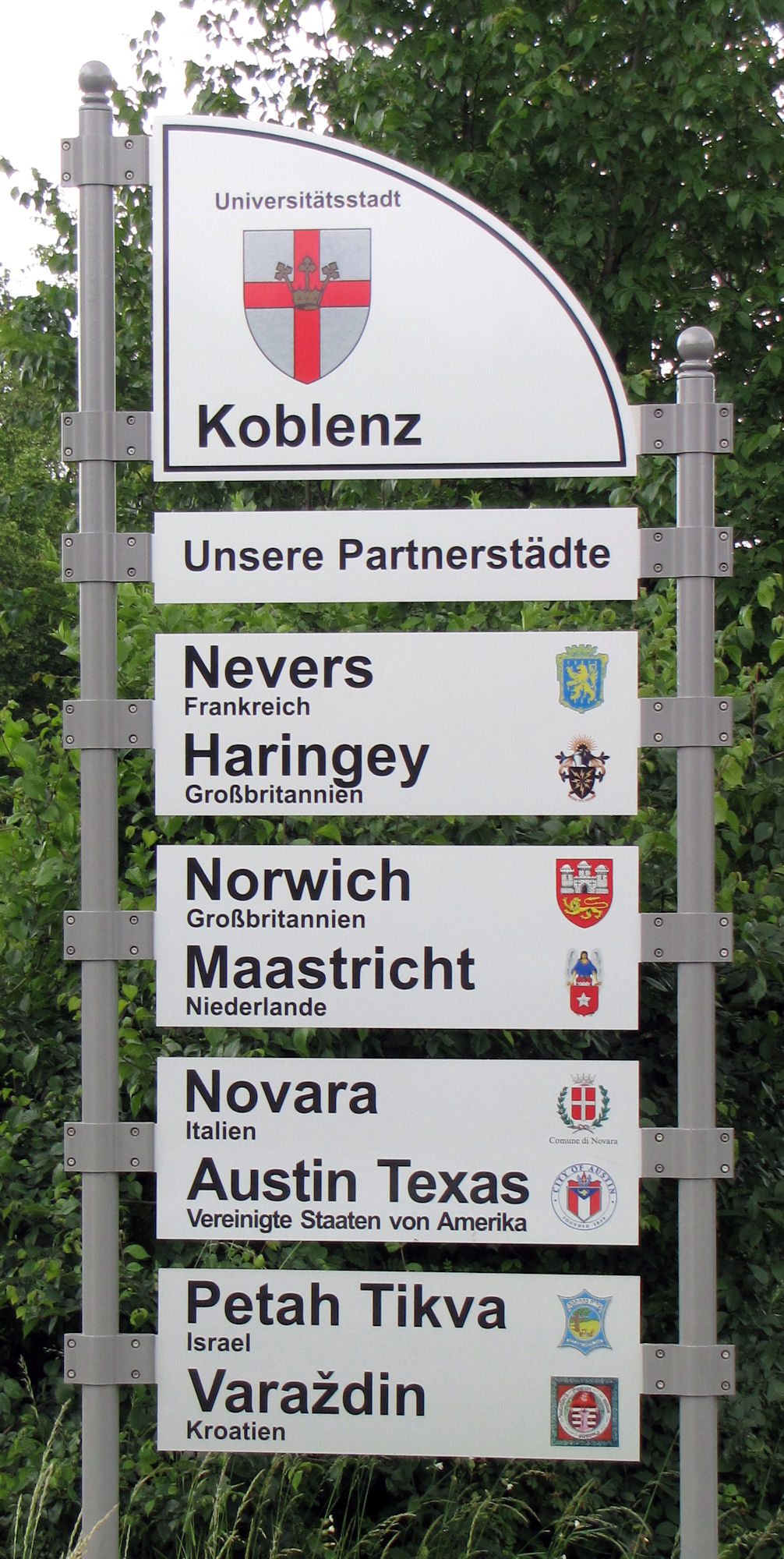 Sister cities of Koblenz